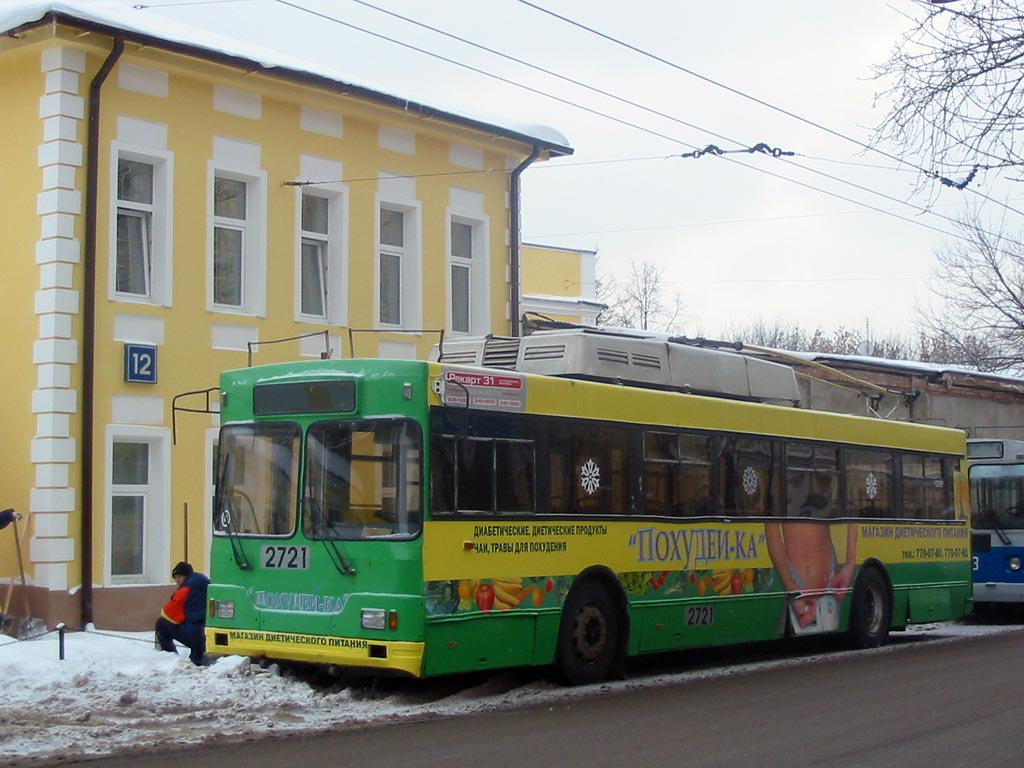 Moscow, trolleybus TrolZa-527500 #2721 with near trolleybus depot #2.